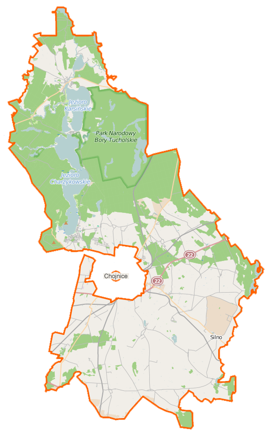 Map of Gmina Chojnice, Poland This map of Chojnice (gmina wiejska) was created from OpenStreetMap project data, collected by the community. This map may be incomplete, and may contain errors. Don't rely solely on it for navigation.